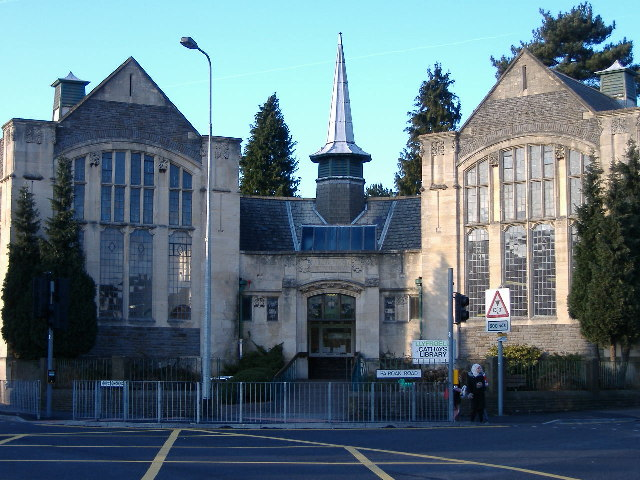 Cathays Library. This is Cathays Library. Cathays Library is a Carnegie building opened in 1906 and is prominently situated on the junction of Cathays Terrace, Whitchurch Road, Fairoak Road and Crwys Road, next to Cathays Cemetery. It is a Grade 2 Listed building and contains several interesting architectural features